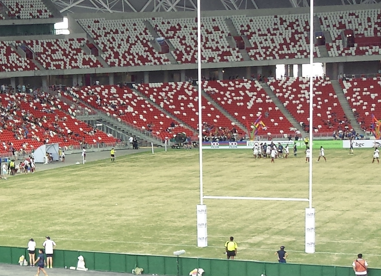 Spectators at the World Club 10s Rugby on 22 June 2014 in the first sporting event held at the National Stadium.